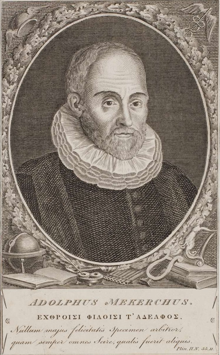 Portrait of Adolf van Meetkercke (1528–1591) (Latin: Adolphus Mekerchus) Flemish diplomat and humanist. From Metronariston (1797, anonymous), by John Warner (1736–1800). After a family portrait; see [1].